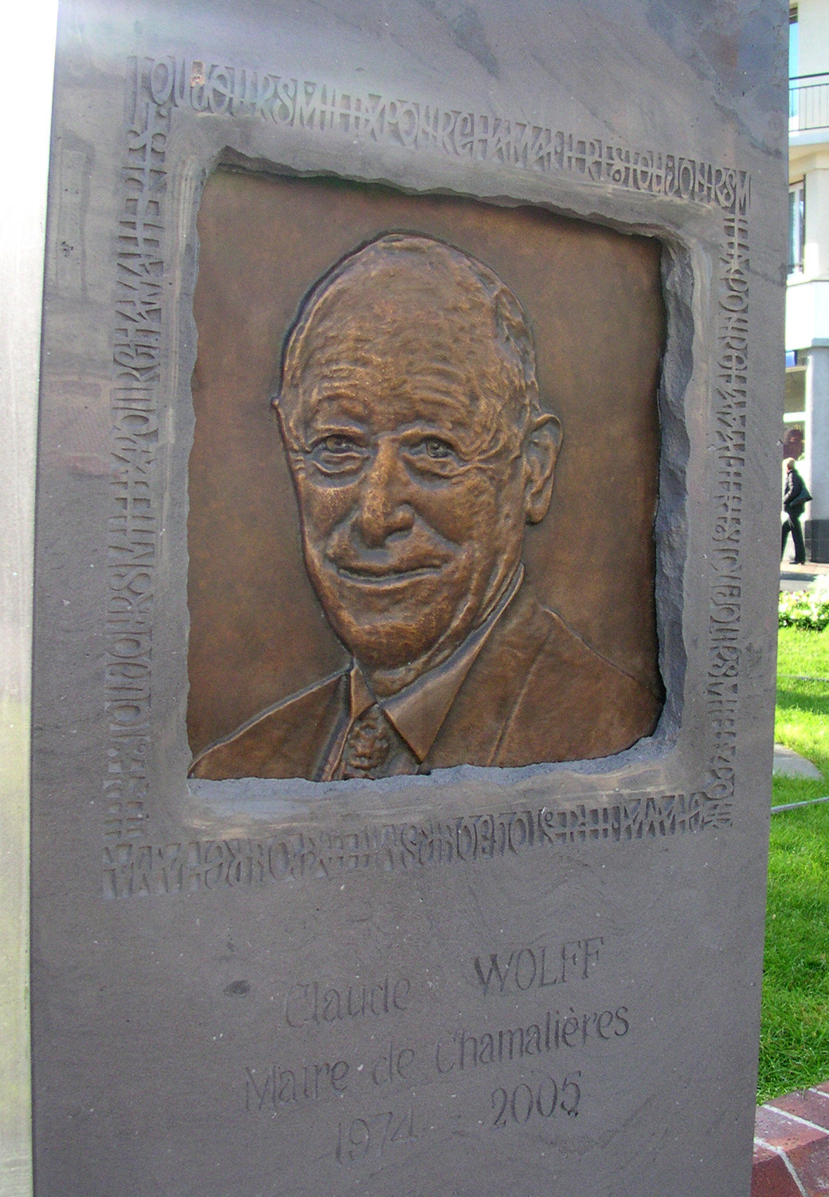 Chamalières, momument to Claude Wolff; former mayor of the city (Puy-de-Dôme, France)